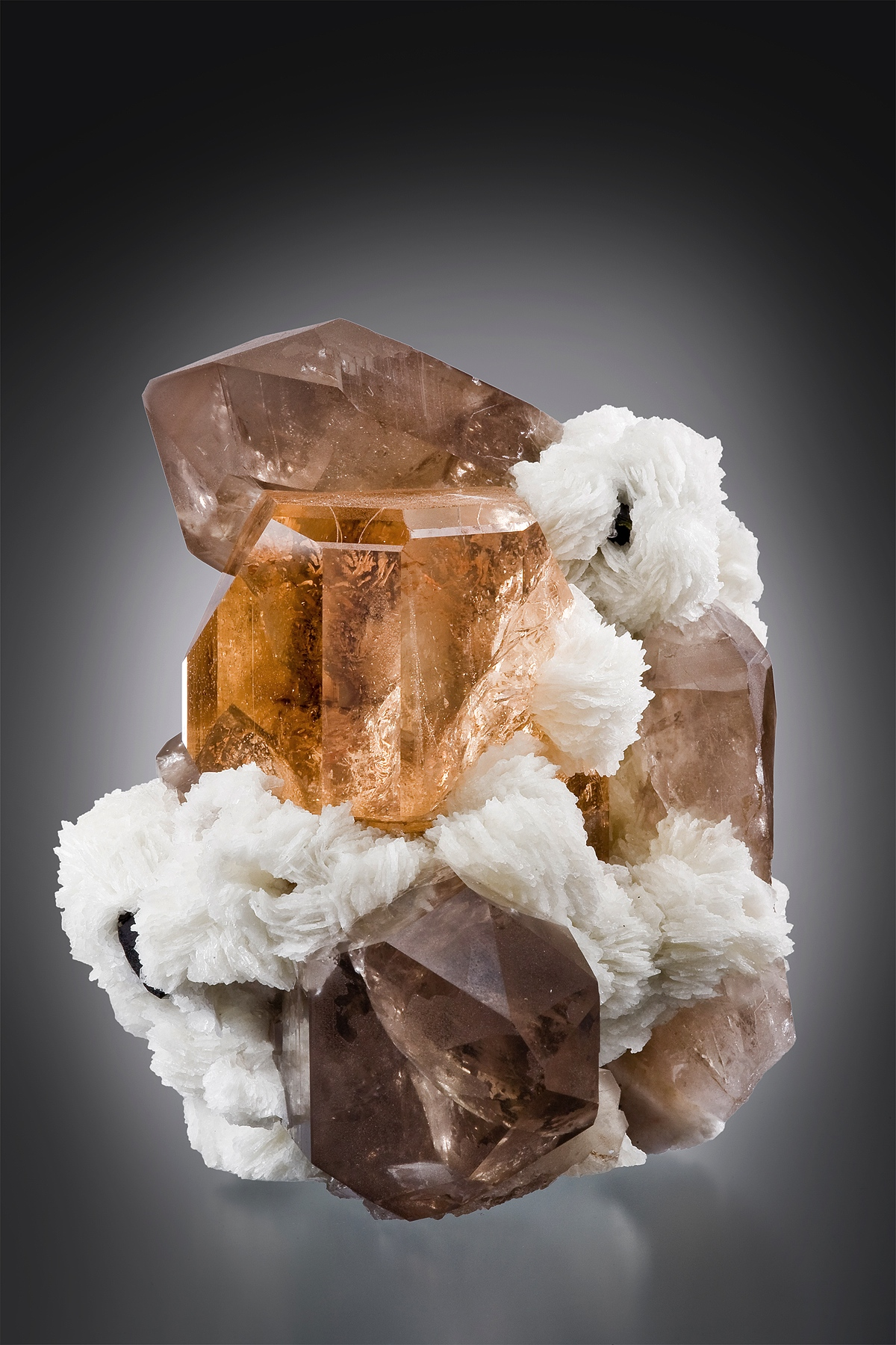 Albite, Quartz, Topaz Locality: Dassu (Dasso; Dusso), Shigar Valley, Skardu District, Baltistan, Northern Areas, Pakistan (Locality at ) Size: cabinet, 11.2 x 10.2 x 9.2 cm Topaz with Quartz on Albite A totally gemmy, transparent, see-through topaz is the highlight of this fantastic combination piece, which has a striking balance of topaz and quartz, both nestled in crystallized cleavelandite. The topaz is 5 cm wide, 4 cm deep, and about 4 cm tall. It is PRISTINE. Not a ding on it and for that matter the rest of the piece is as close to pristine as you can wish, as well. In person, the topa zleaps out at you as a 3-dimensional jewel, transparent and brilliant like glass. You can see right through it to the quartz behind, the cleavelandite underneath, and the faceted terminations set against them. Topaz , on matrix, of this quality comes but rarely despite all the hunting and searching for these valuable gems. Most people consider this region to be the premier locality for champagne-colored topaz crystals of this style, and this piece epitomizes why. I purchased this in 2008 directly from a source in Peshawar, when it was much larger and needed to be heavily trimmed and cleaned. Joe Budd Photo (on graded background)